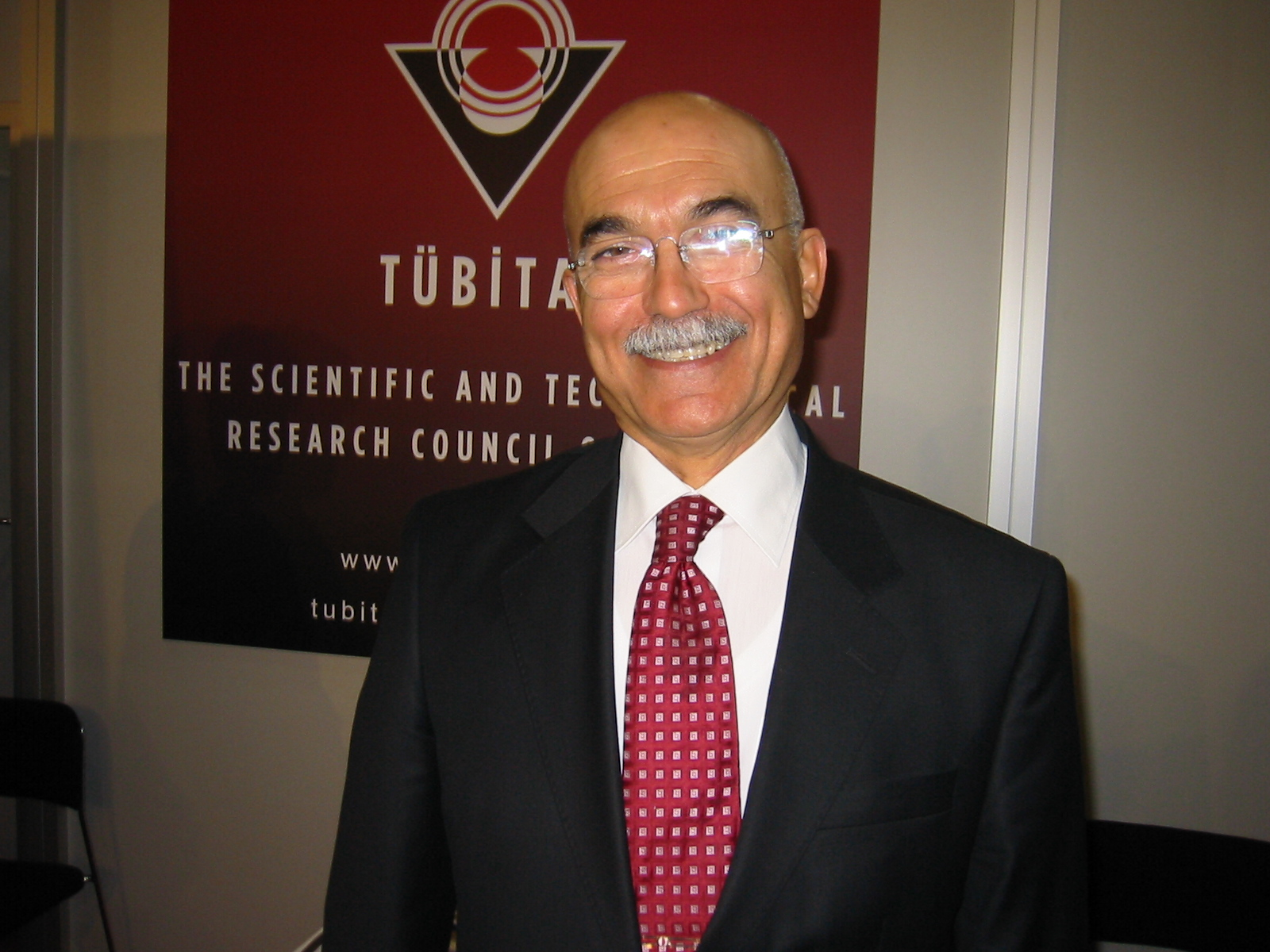 Omer Anlagan, Vice President of TÜBİTAK (Scientific and Technological Research Council of Turkey)